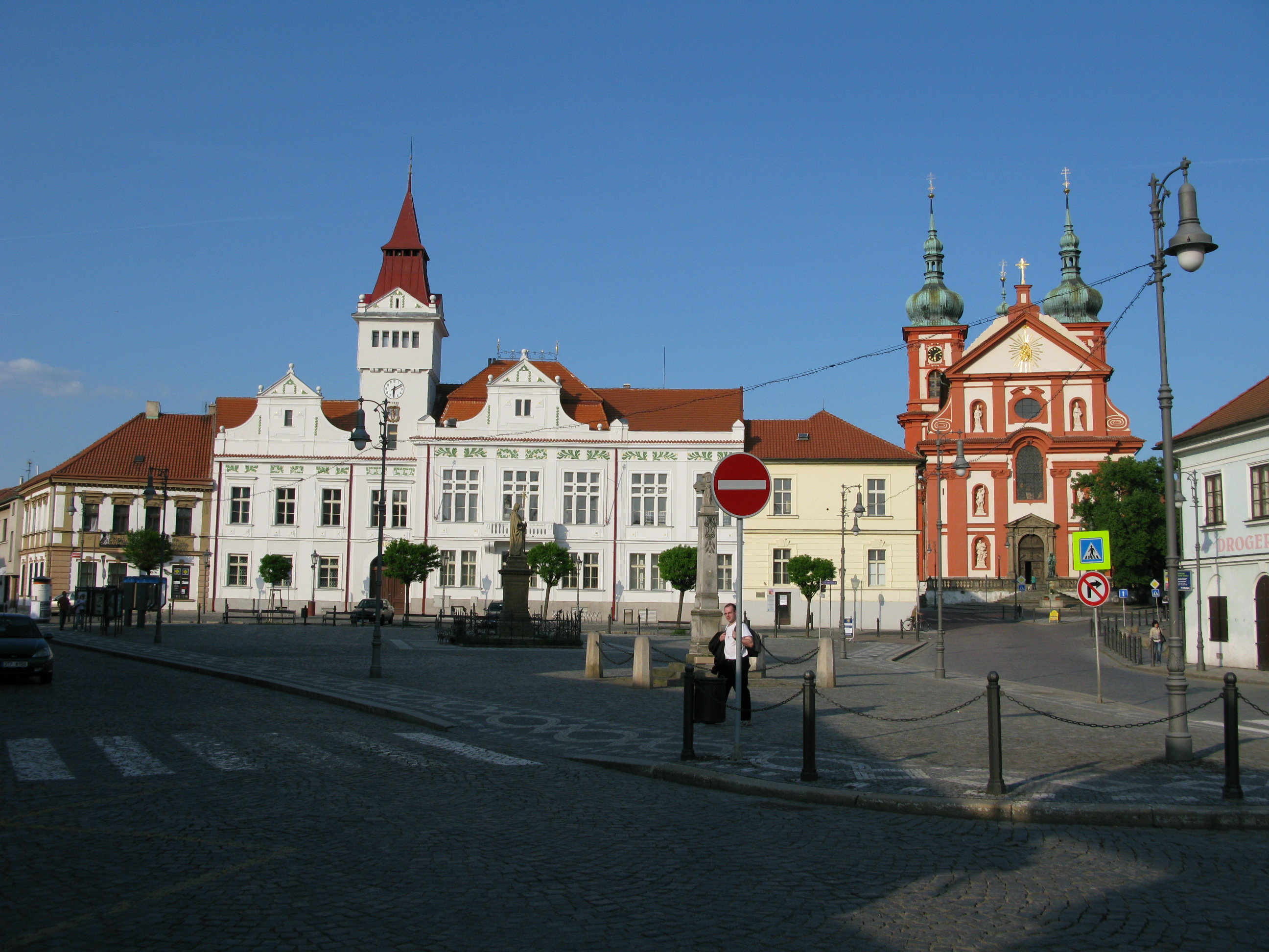 Stara Boleslav, Square of Virgin Mary